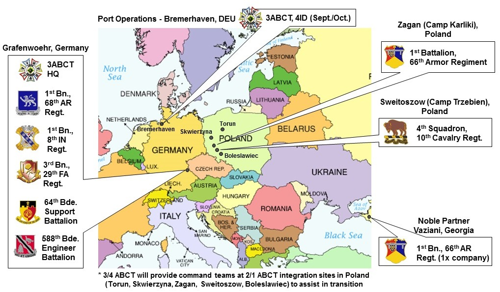 Location of postured units during Operation ATLANTIC RESOLVE